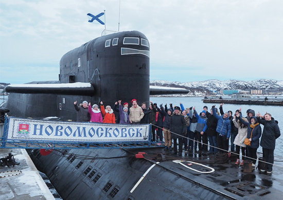 Школьники города Гаджиево Мурманской обл. в рамках всероссийской акции «Есть такая профессия — Родину защищать!» на ракетном подводном крейсере стратегического назначения (РПКСН) «Новомосковск»